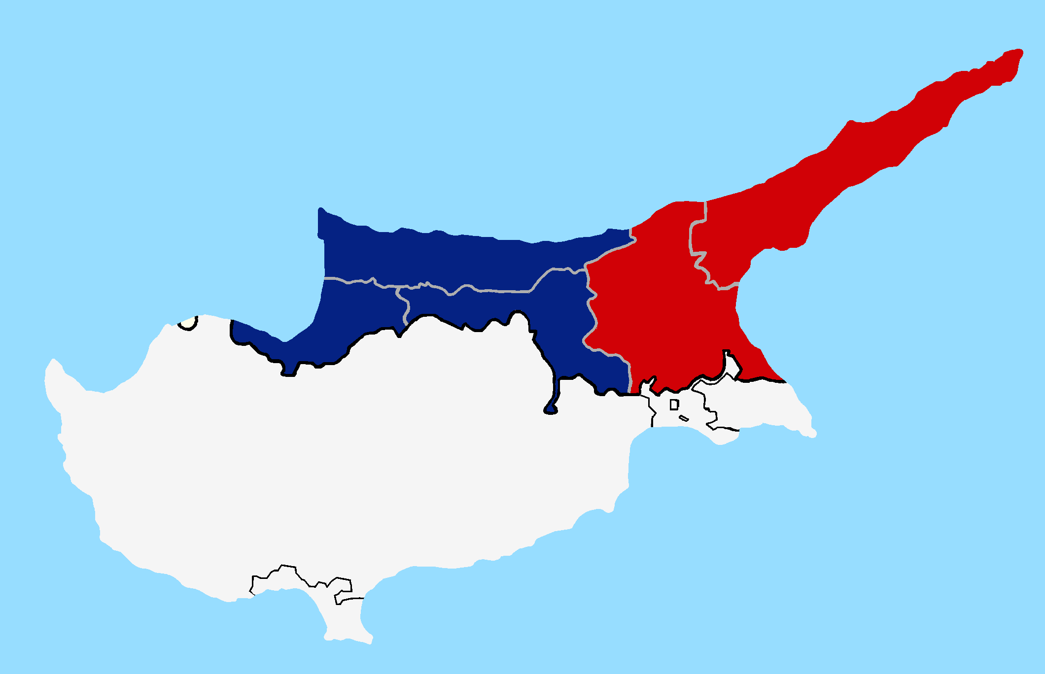 Map of districts won by each candidate in the first round of the 2015 Northern Cyprus presidential election. Blue: Akıncı Red: Eroğlu